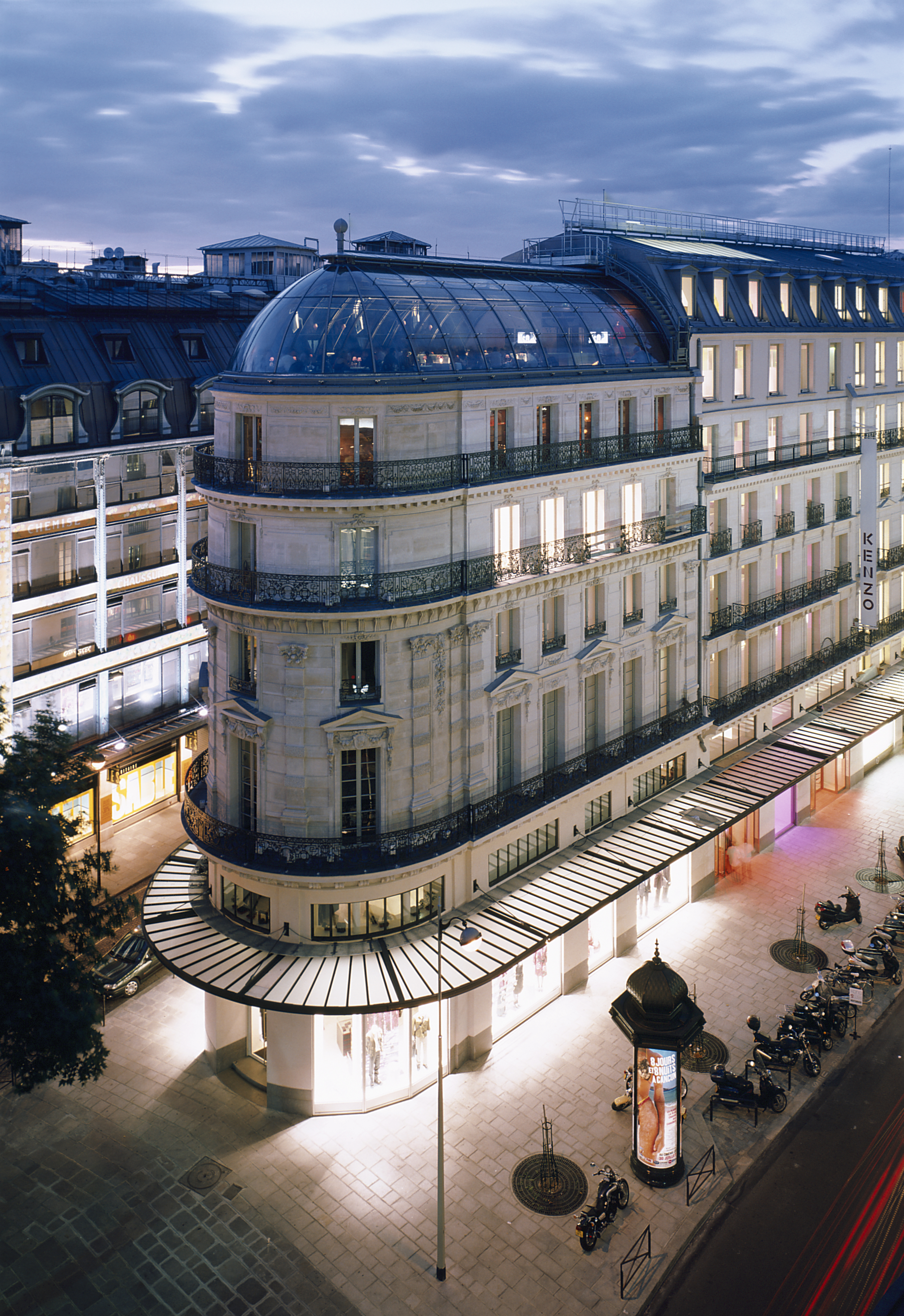 Kenzo Building, 1 rue du Pont-Neuf, 75001 Paris, France.